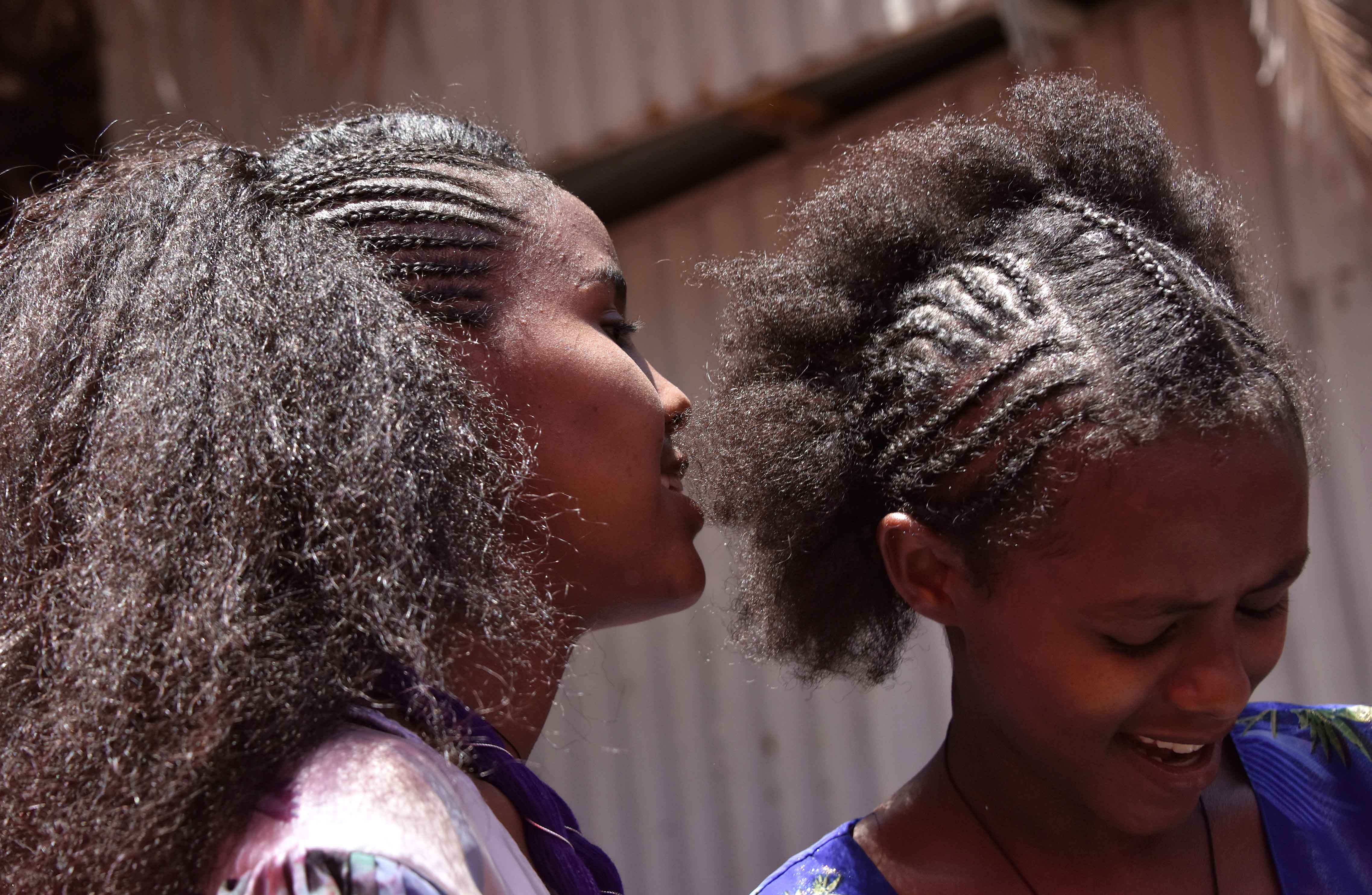 Tigray Girls, Ethiopia